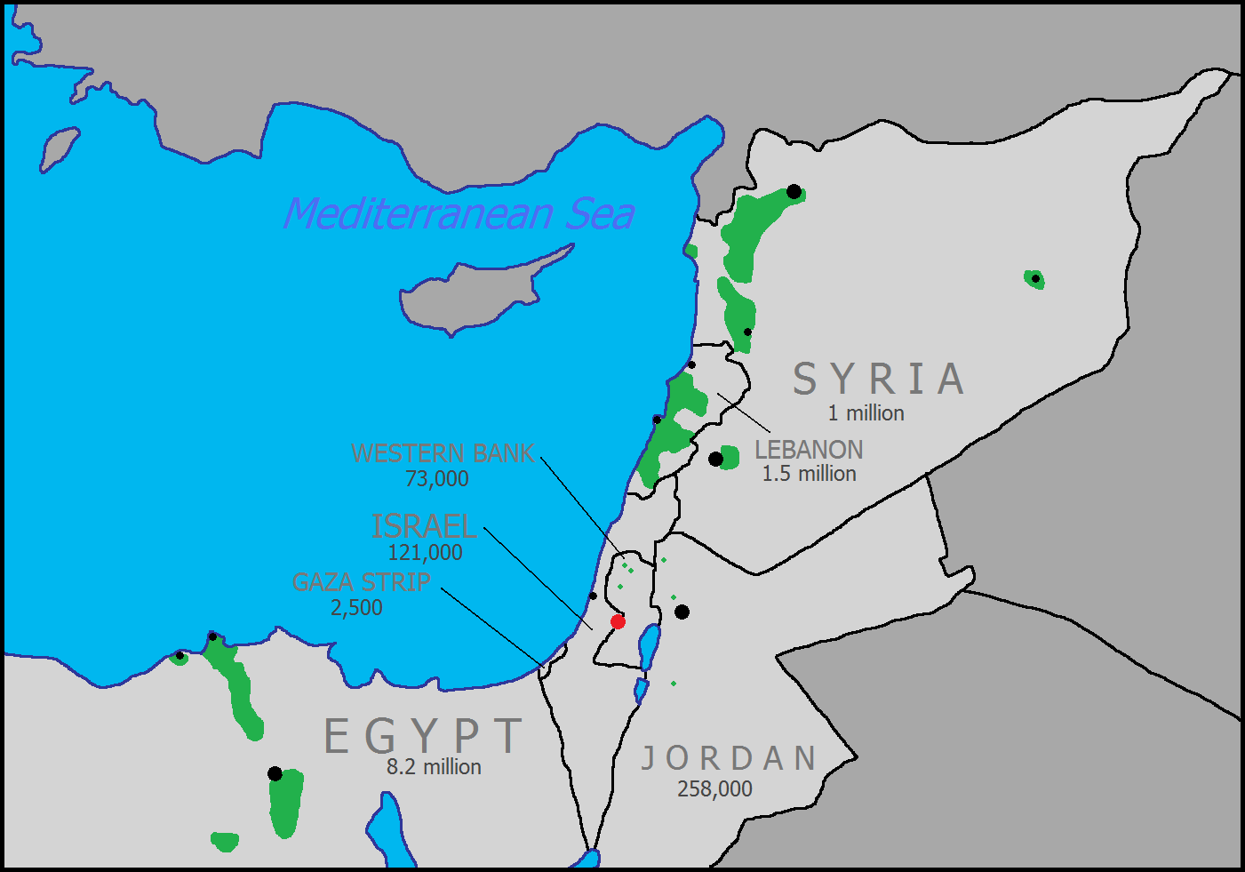 Arab Christians in Syria, Jordan, Lebanon, Israel, Western Bank, Gaza strip and Egypt. My own work based on National Geographic's map. original text on the map: Jerome N. Cookson Marguerite B. Hunsiker NG Staff Source: M. R. Izady (map), Philippe Fargues (graph)